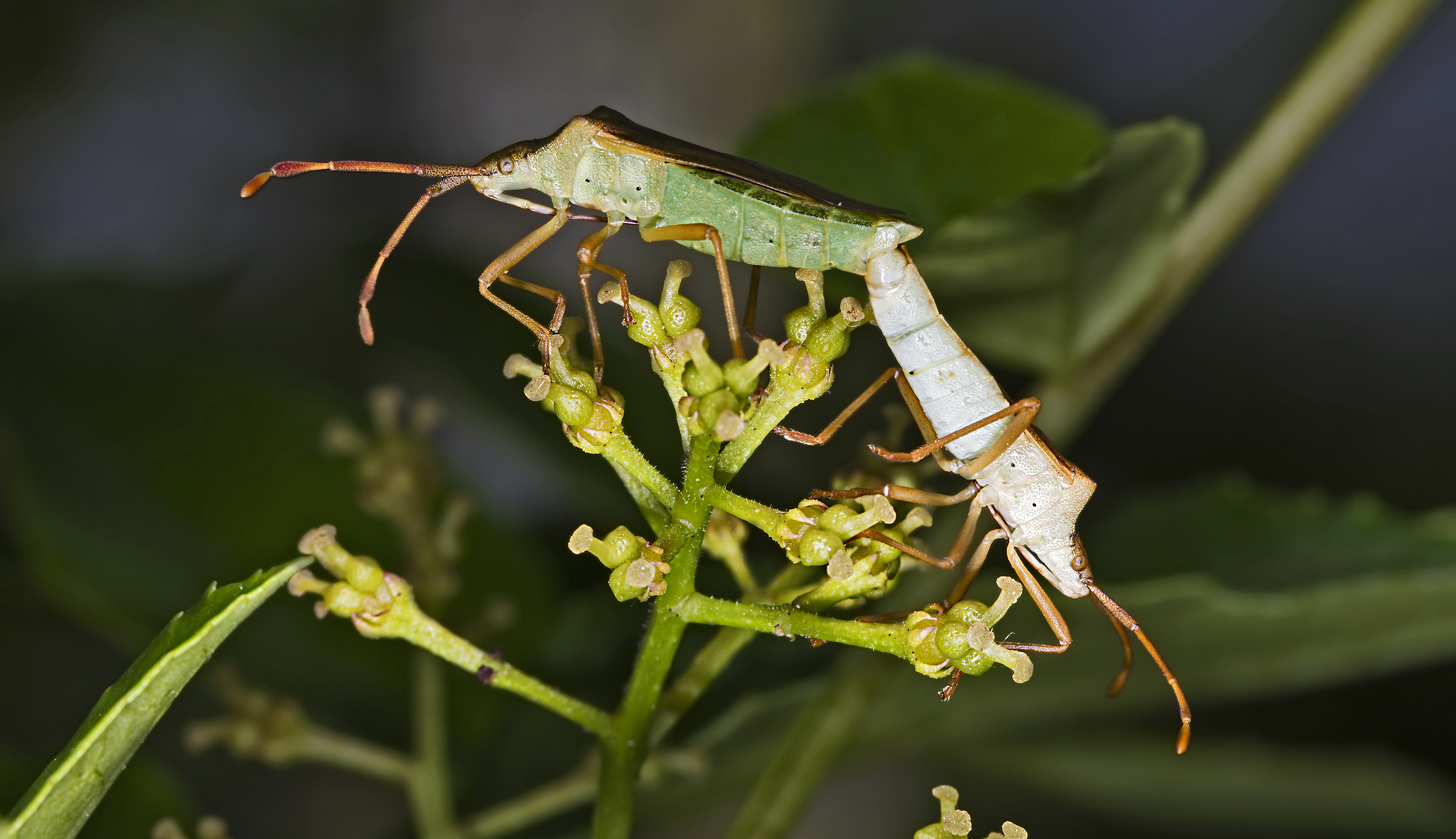 Gonocerus acuteangulus. Mating.